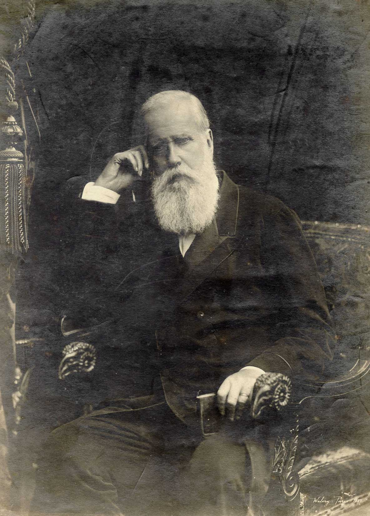 Emperor Pedro II of Brazil in Paris